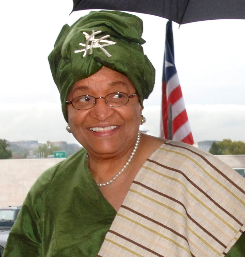 Liberian President Ellen Johnson-Sirleaf at the Pentagon Oct. 24, 2007.